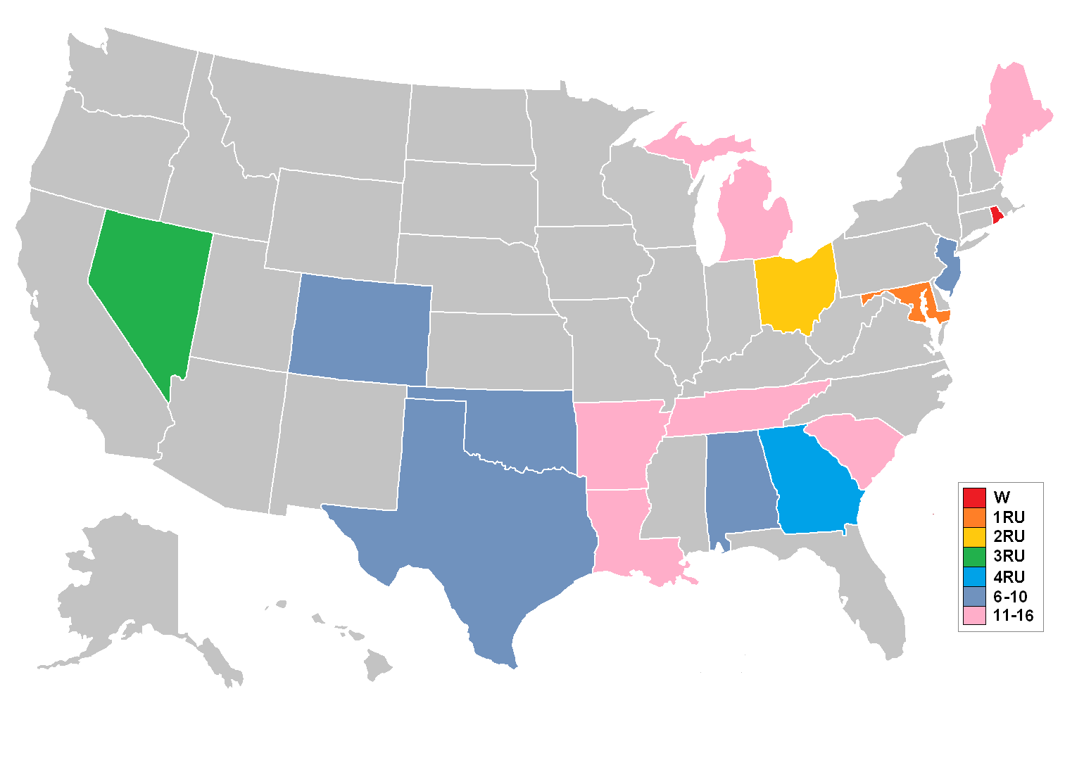 placement